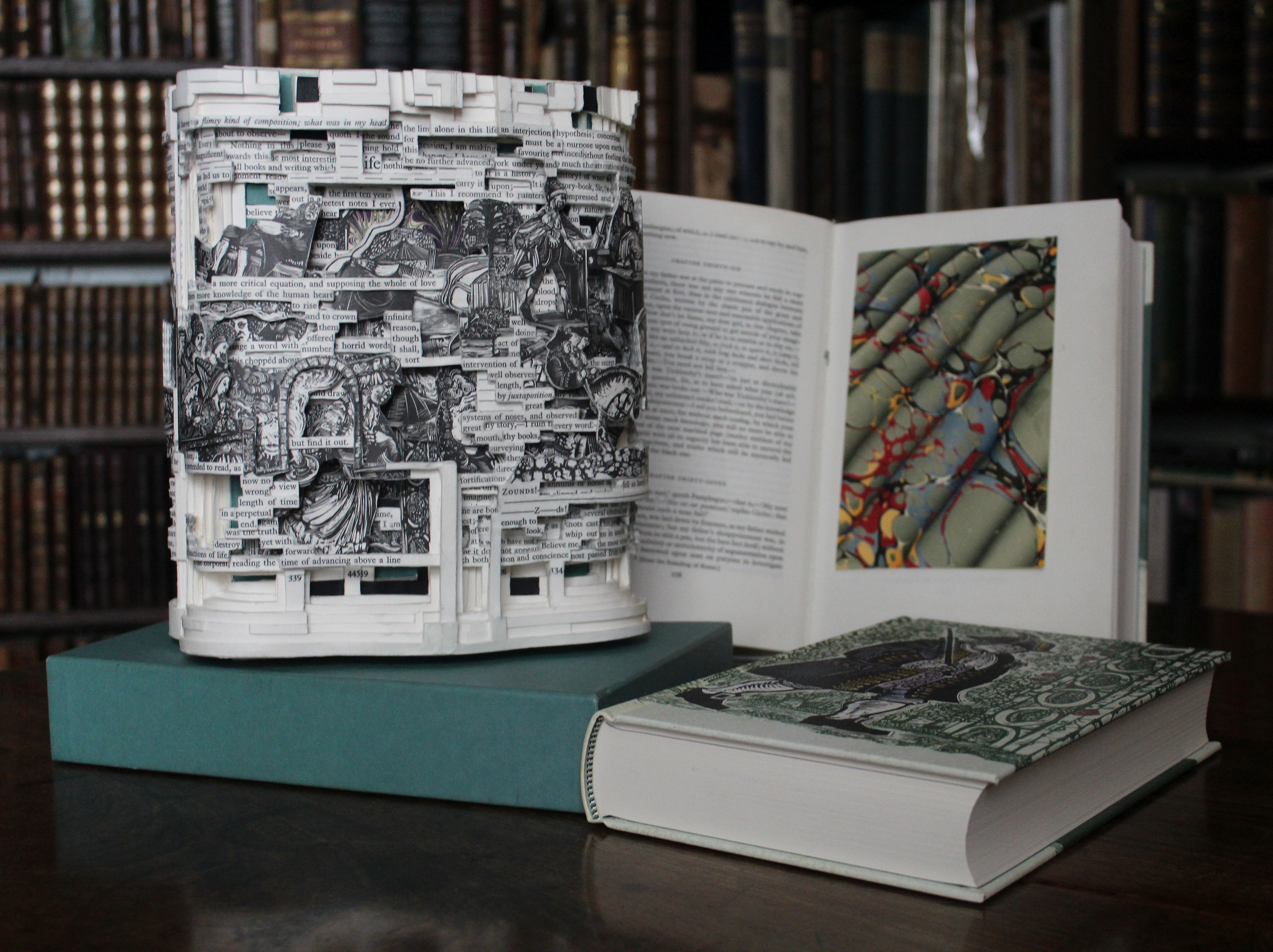 Top view of Brian Dettmer's artwork, 'excavated from a Folio Edition of The Life and Opinions of Tristram Shandy, Gentleman. The visible illustrations are by John Lawrence. Two unaltered versions appear to the right.